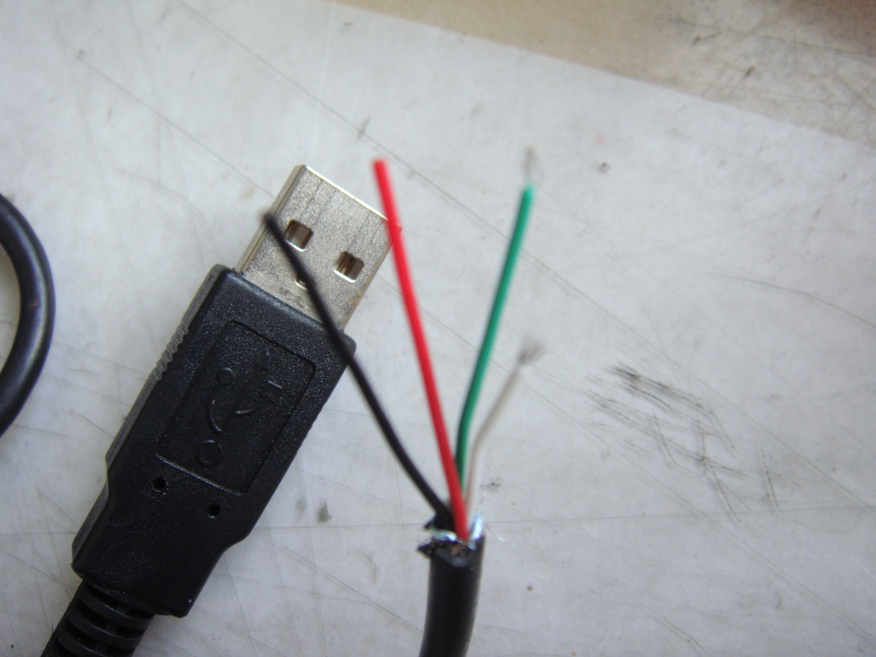 USB